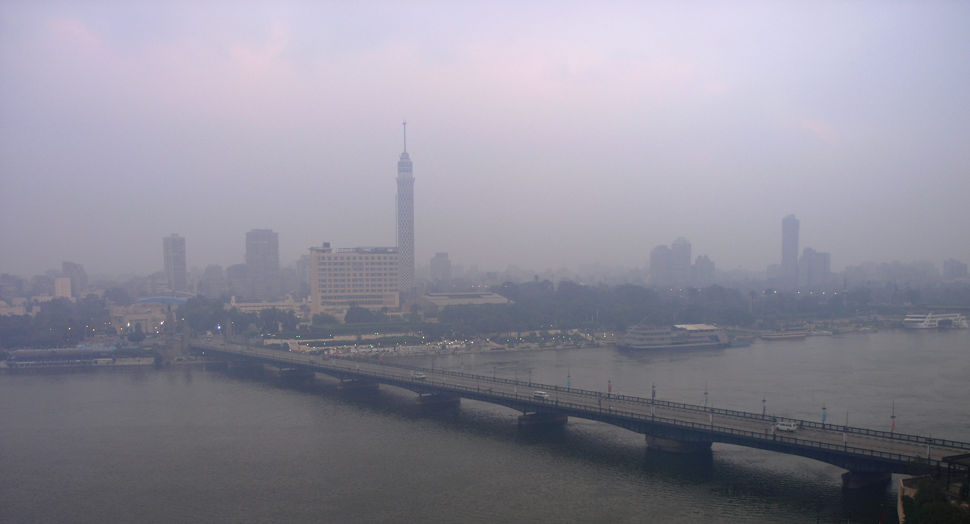 View west of Gezira Island from Garden City and downtown Cairo, with Qasr Al-Nil Bridge in foreground.